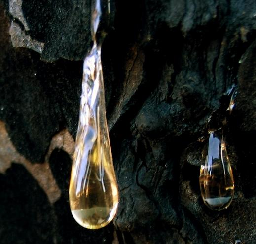 Pinus pinaster resin, from a tree burnt in a forest fire.